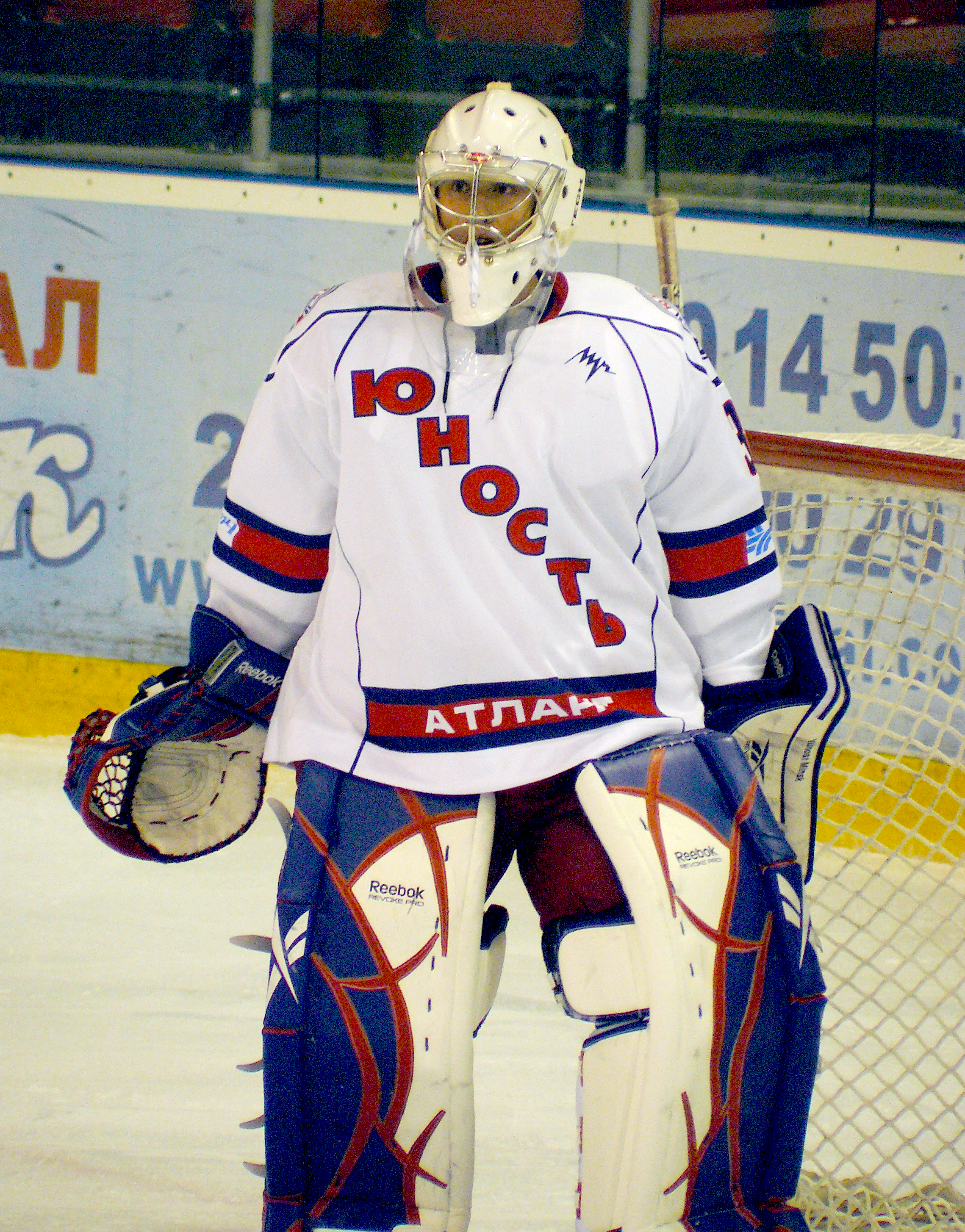 Goalie Vitaliy Belinskiy #33 of the Yunost Minsk during the Belarus Extraliga game against the Sokil Kyiv on September 15, 2010 at the Terminal Arena in Brovary, Ukraine. Yunost Minsk won the game 2:1.